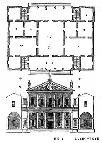 Villa Valmarana in Lisiera of Bolzano Vicentino, Vicenza. Drawing from I quattro libri dell'architettura by Andrea Palladio.